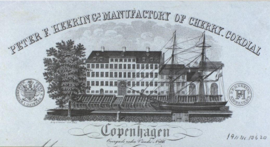 Peter F. Heerings Manufactory of Cherry Cordial